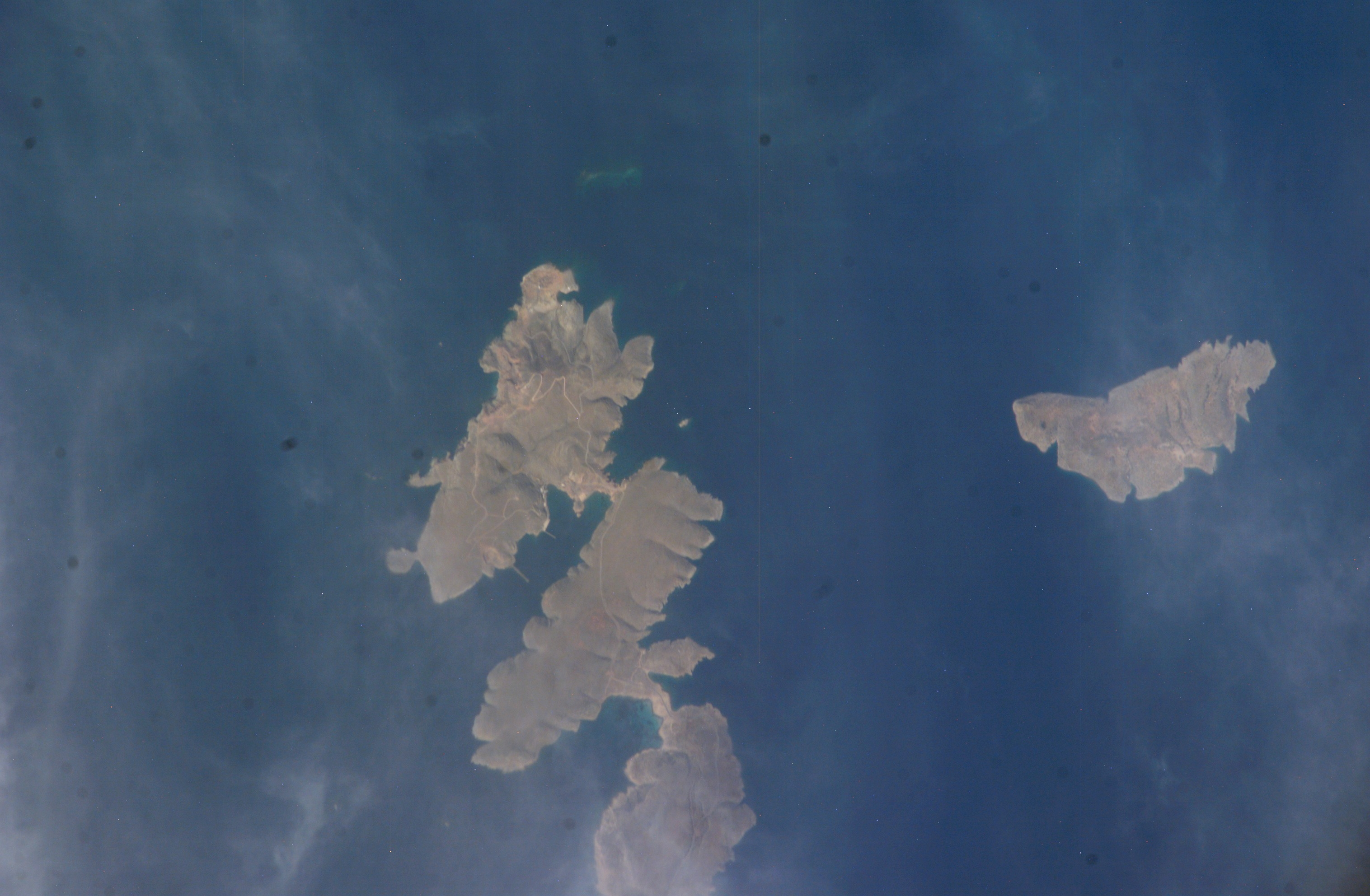 19831 Mission: ISS014 Roll: E Frame: 19109 Mission ID on the Film or image: ISS014 Country or Geographic Name: CRETE Features: C. SIDHEROS, ELASSA I. Center Point Latitude: 35.3 Center Point Longitude: 26.3 (Negative numbers indicate south for latitude and west for longitude) Image Science and Analysis Laboratory, NASA-Johnson Space Center. "The Gateway to Astronaut Photography of Earth." (10/03/2009) . Send questions or comments to the NASA Responsible Official at Curator: Earth Sciences Web Team Notices: Web Accessibility and Policy Notices, NASA Web Privacy Policy